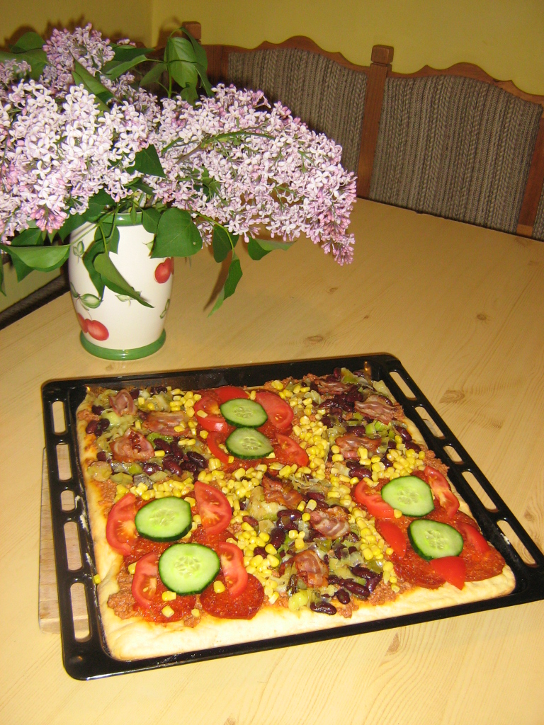 Pizza by Vadszederke with lilac.